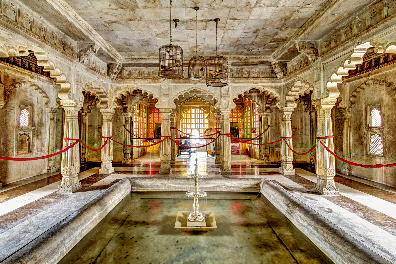 Part of Badi Mahal in City Palace, Udaipur